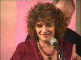 Poet, Janice Silverman Rebibo, at a celebration of her poetry collection, Zara Betzion, at the Felicja Blumental Music Center, Tel Aviv, on December 1, 2007.